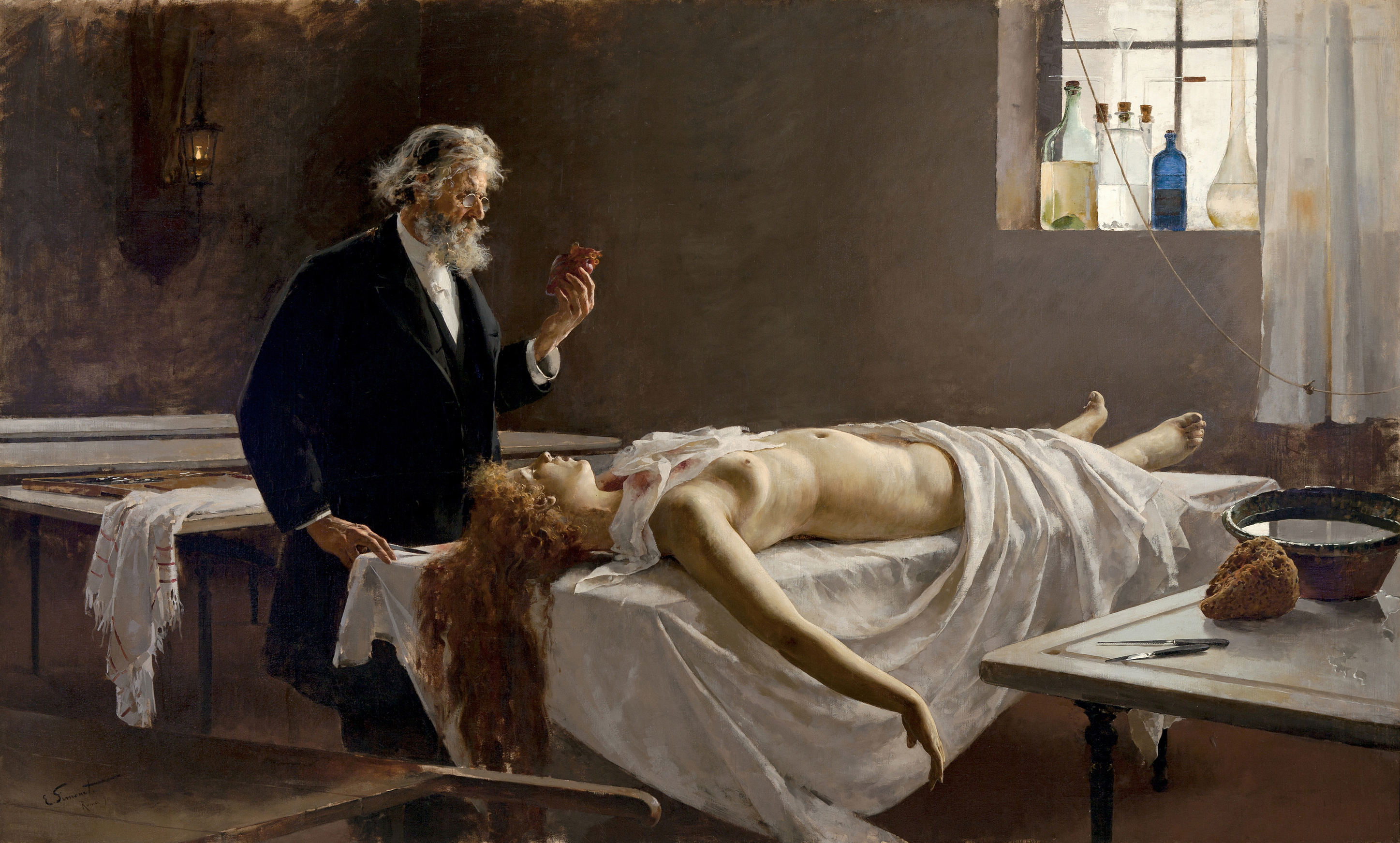 The work depicts a doctor, who is conducting an autopsy, looking at the heart of a young woman.